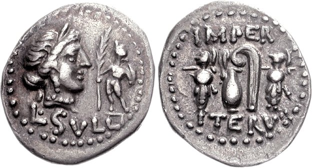 L. Sulla. 84-83 BC. AR Denarius (3.93 g, 12h). Military mint traveling with Sulla. Diademed head of Venus right; on right, Cupid standing left, holding long palm branch / Capis and lituus between two trophies. Crawford 359/2; Sydenham 761a; Cornelia 30. Good VF, deeply toned, slightly iridescent. Well centered on both sides. This type was struck in a military mint travelling with Sulla in the east after his successful campaign against Mithradates VI. The obverse type of Venus refers to Sulla's belief that he was under the protection of Venus, who granted him victory in the battle against Mithradates. On the reverse, the trophies refer to the battles of Chaeronea in 86 BC and of Orchomenos in 85 BC. The capis and lituus, normally symbols of the augurate, were probably regarded by Sulla as symbolizing a claim to imperium, as Sulla did not become Augur until 82 BC.